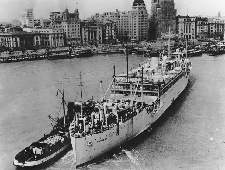 The U.S. Navy troop transport USS Chaumont (AP-5) arriving off the Bund at Shanghai, China, with the 6th Regiment, U.S. Marine Corps, on 19 September 1937. The Marines had been sent to reinforce the 4th Marine Regiment in guarding the U. S. sector of the International Settlement during the Sino-Japanese war. The tug is either St. Sampson or St. Dominic.